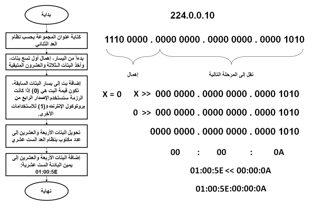 A flowchart that explains the algorithm behind the process of generating the Ethernet MAC address starting from an IPv4 multicast group address. in addition to a numeric example of the illustration.